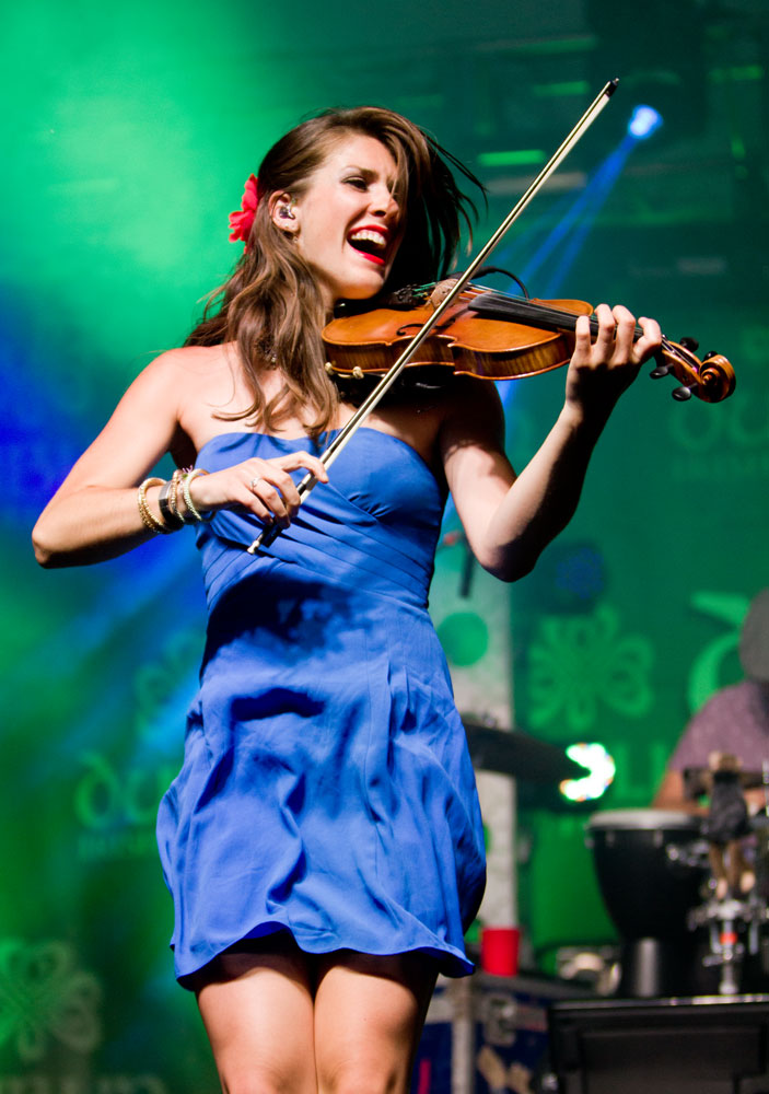 Kiana performing in Irish Fest